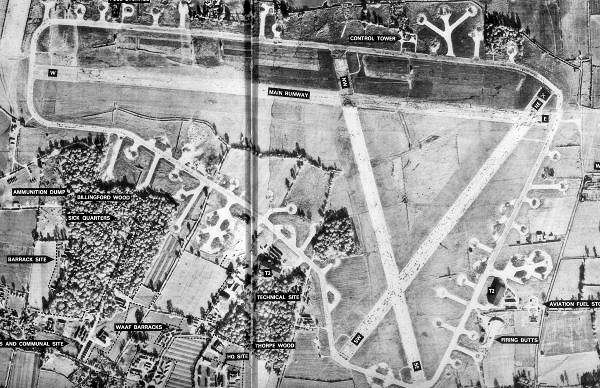 Aerial photograph of Thorpe Abbots Airfield, England.